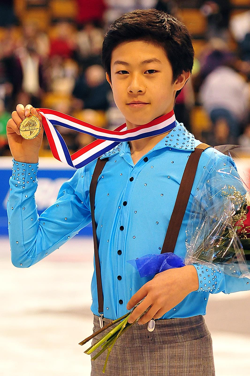 Nathan Chen during the junior men's medal ceremony at the 2014 U.S. Figure Skating Championships in Boston, MA on January 9, 2014 (photo by Leah Adams)